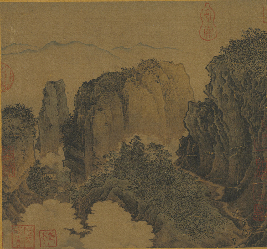 Xiao Zhao, Travelers in a Mountain Pass, 12th century, NPM Taipei